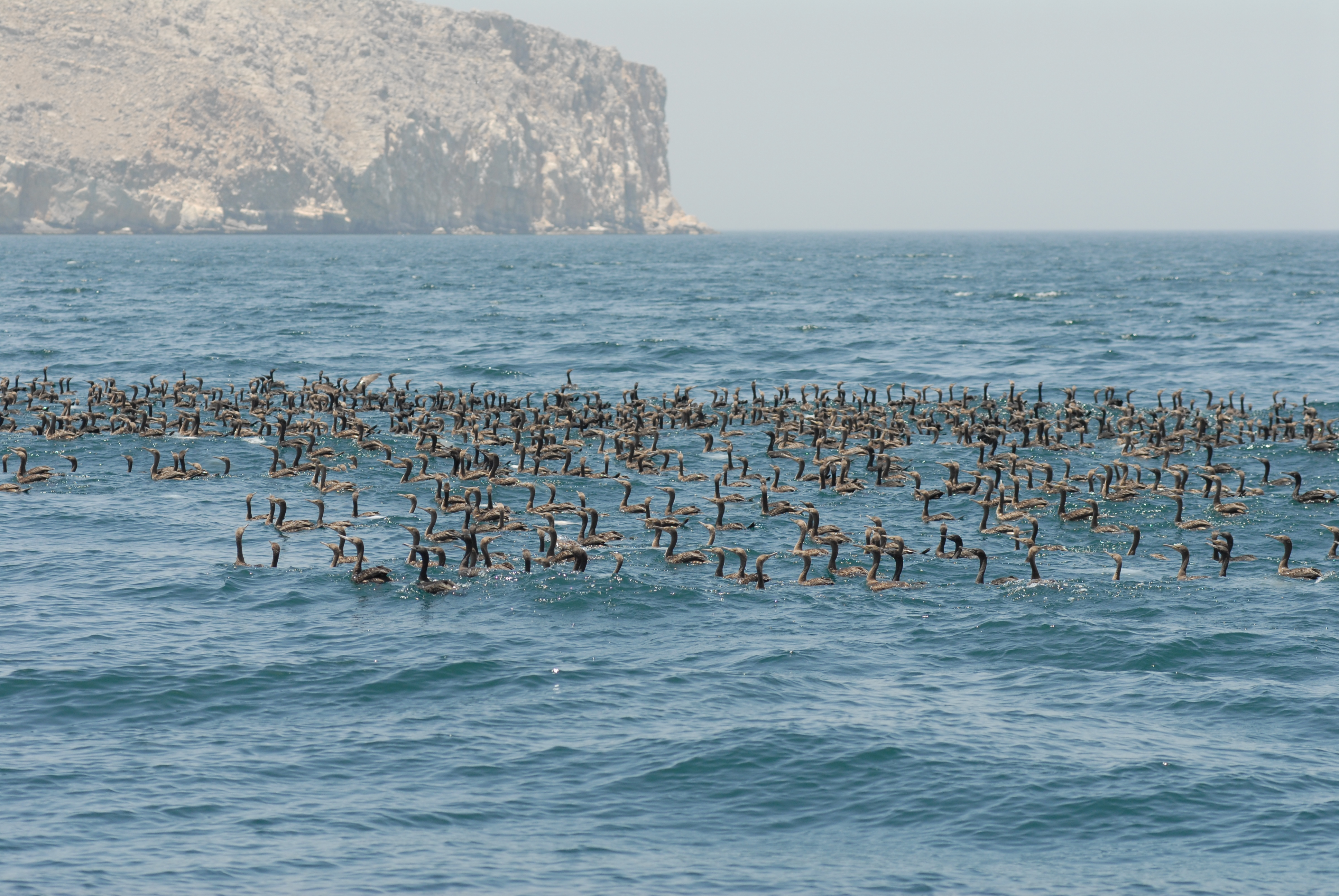 Flock of Socotra Cormorants Phalacrocorax nigrogularis, Khasab, Oman